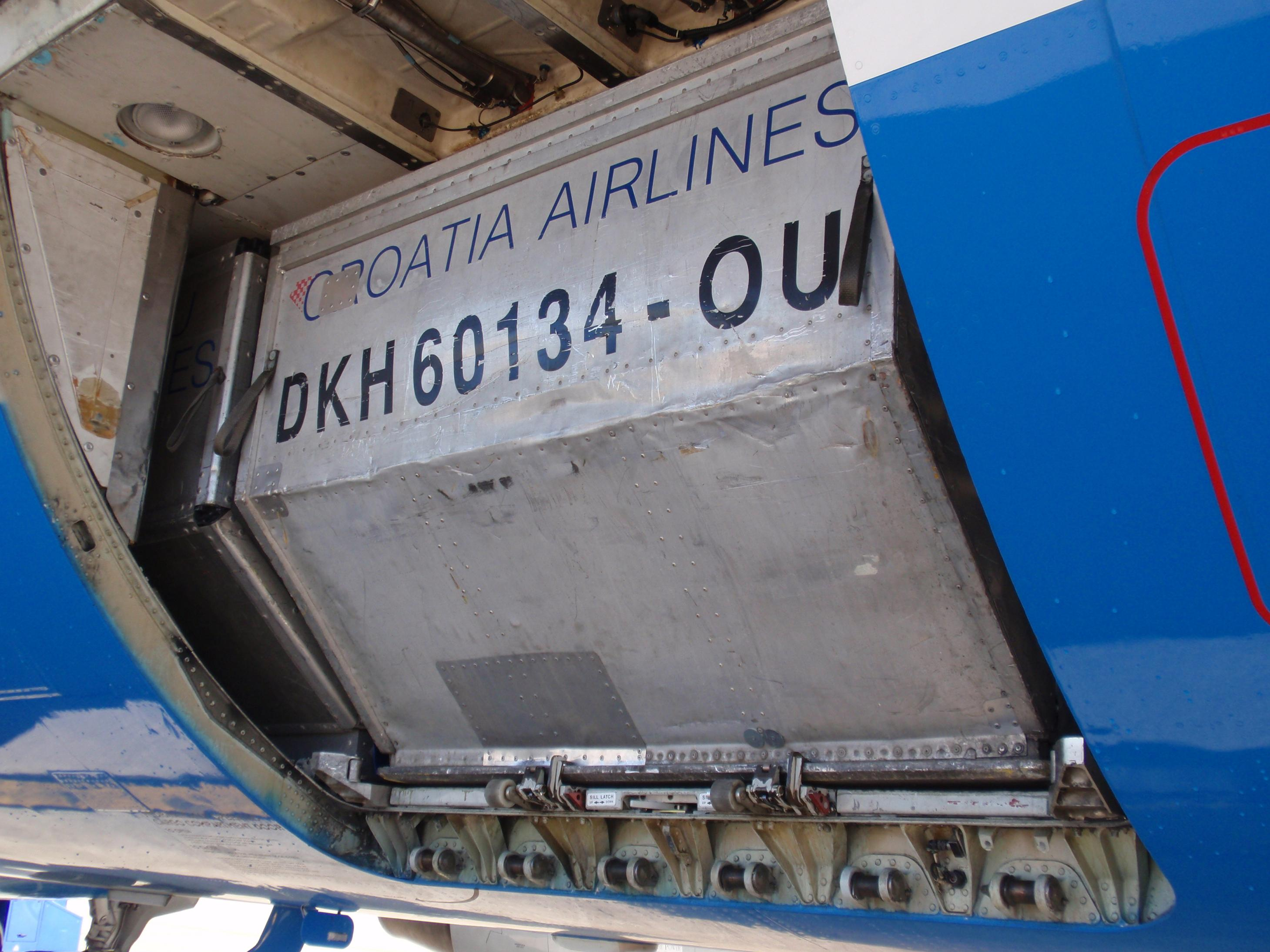 ULD Container loaded in A-320